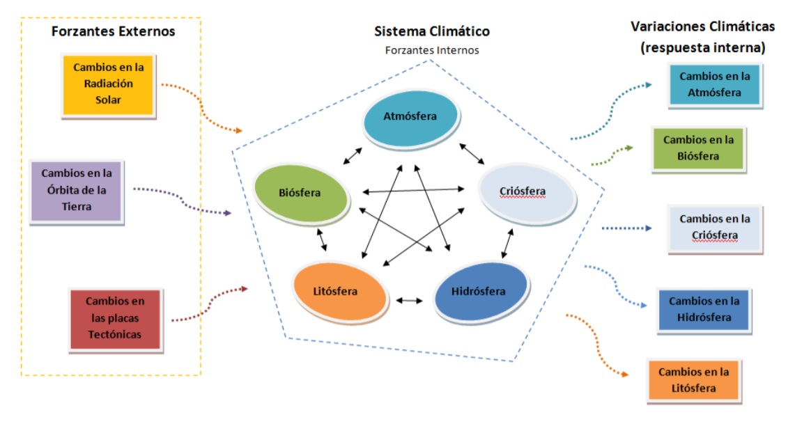 Terrestrial climate system